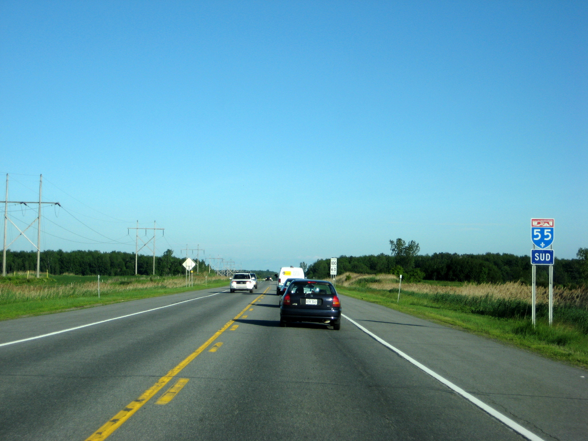 Quebec Autoroute 55, seen with oncoming traffic in a Super-2 (undivided) configuration in southbound (sud) direction.